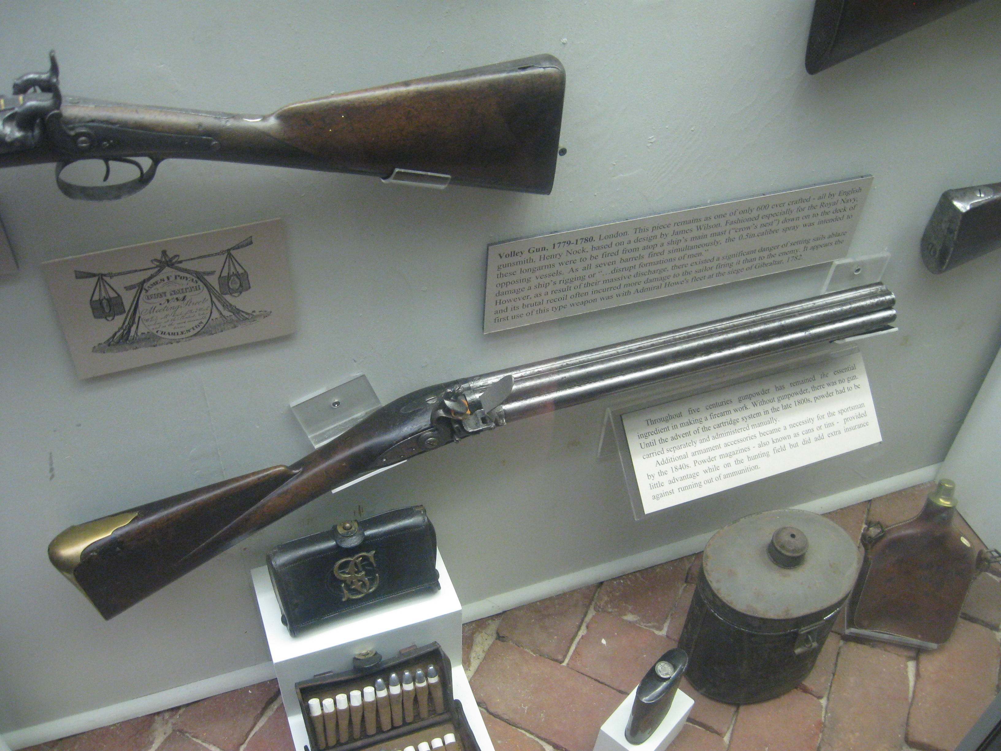 Nock volley gun in the Charleston Museum. These guns were made 1779-1780 for the British Royal Navy